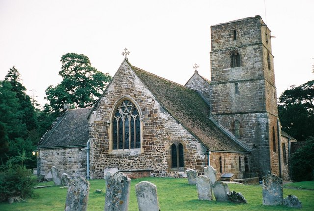 Canford Magna: parish church, near to Canford Magna, Poole, Great Britain.